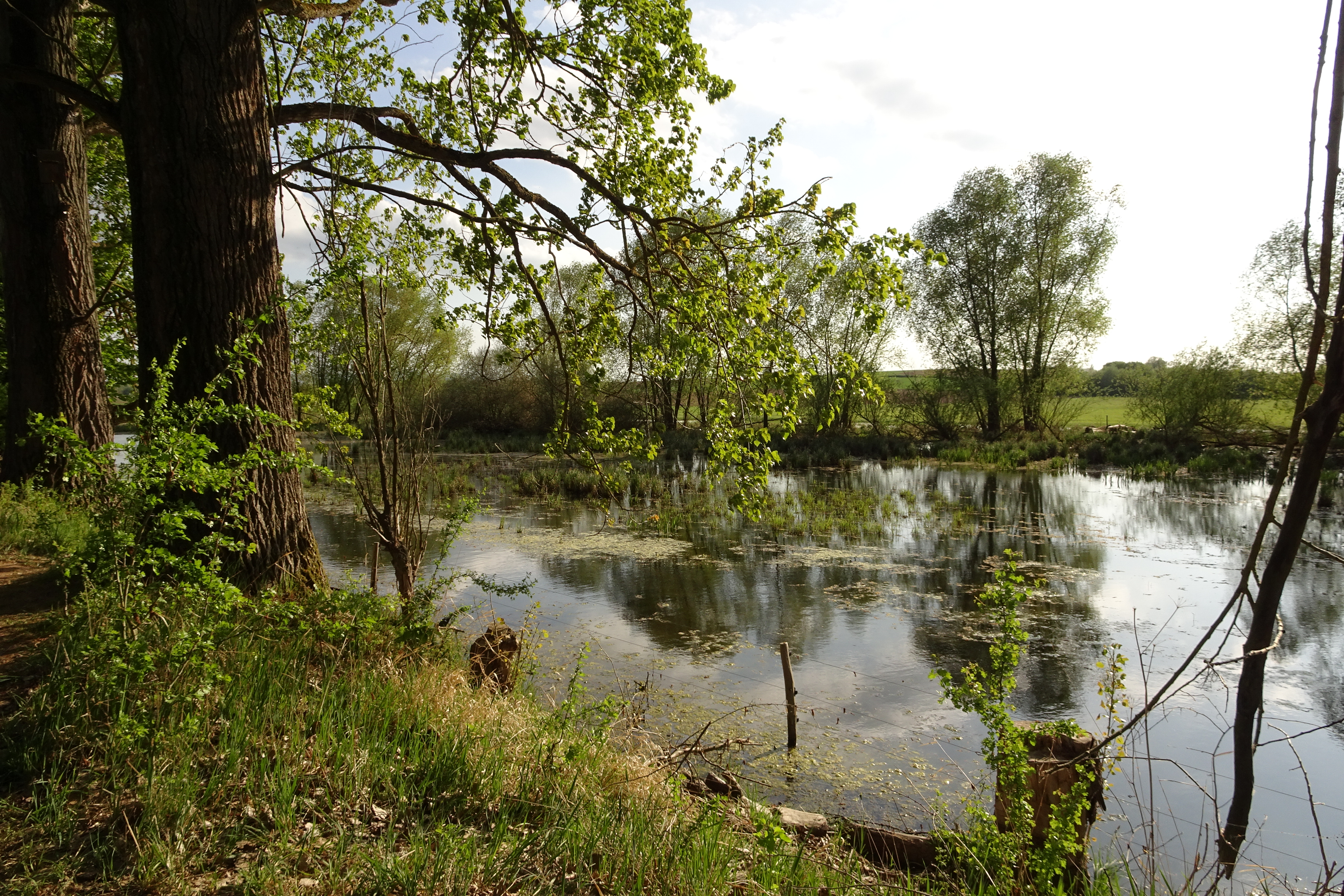 Nature reserve "Scheelhecke von Groß-Zimmern" (NSG:HE-1432008), open water, fenced for pasture. Landkreis Darmstadt-Dieburg, Hesse, Germany.